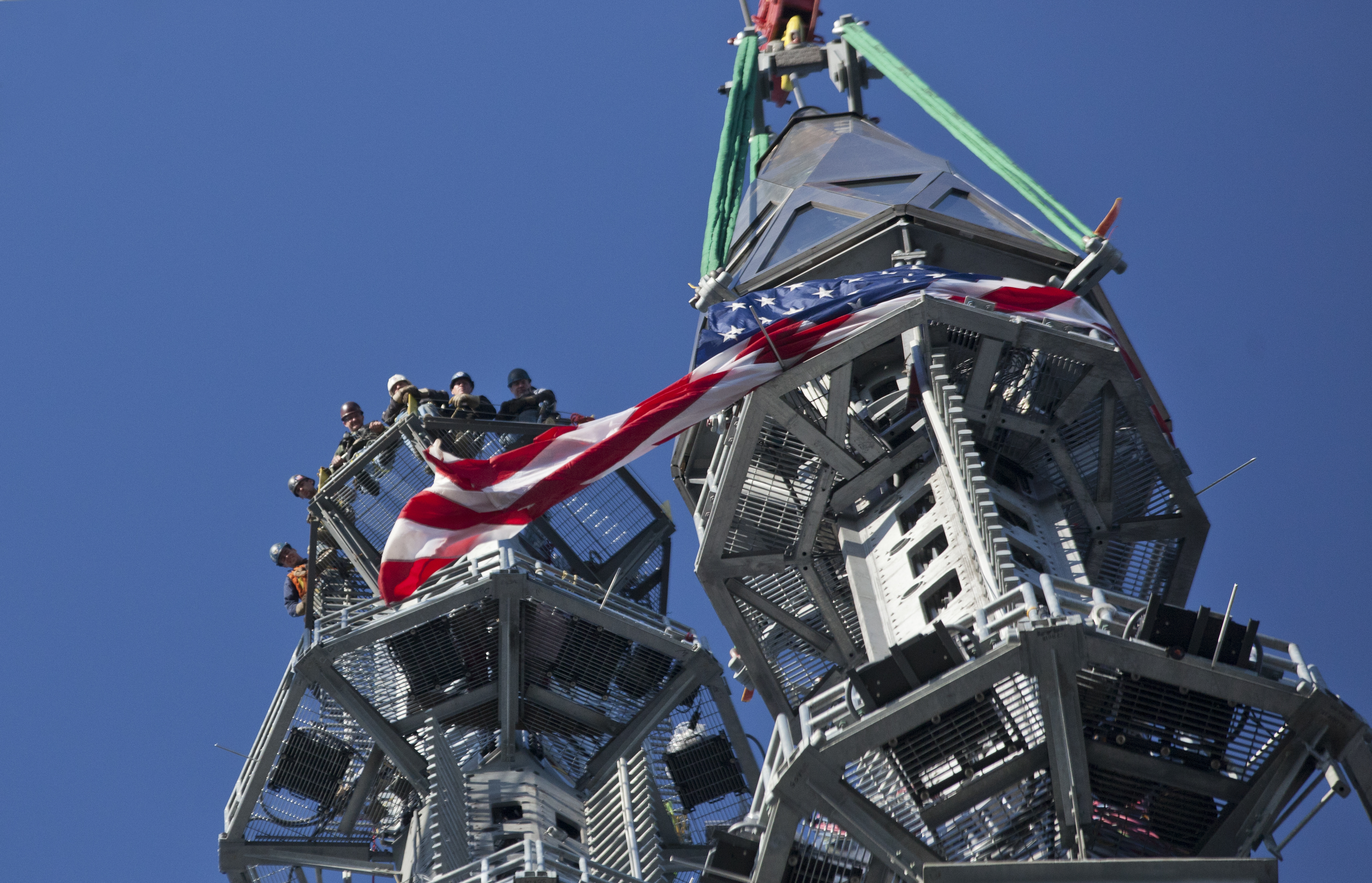 I took this from the roof of One World Trade as the final piece of the spire was hoisted into place.